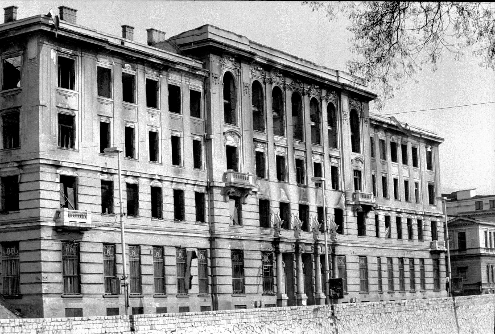 Sarajevo: Post Office on Obana Kulina, gutted by incendiary shells. Christian Maréchal photo